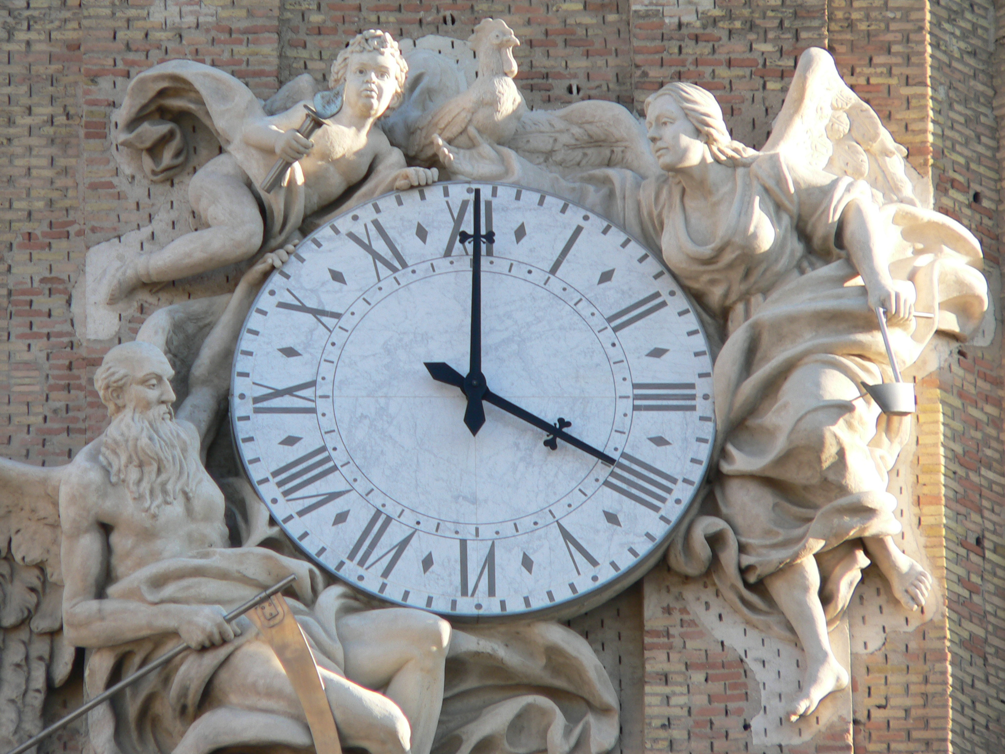 La Seo or St. Salvador cathedral, Saragossa (Spain). Detail of the clock.